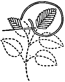 Fishbone stitch, from Samplers and Stitches, a handbook of the embroiderer's art by Mrs Archibald Christie, London 1920/New York 1921.